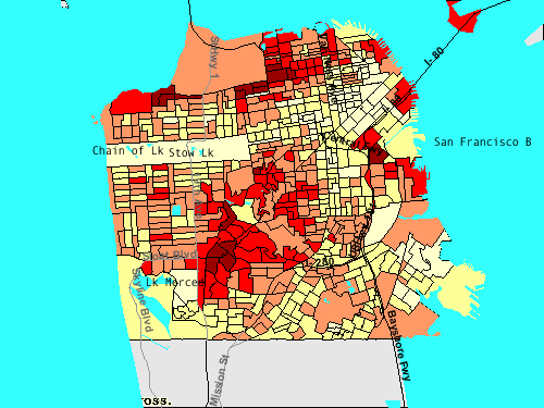 This image is a self-generated thematic map from the U.S. Census Bureau's American Factfinder at by Wikipedia user Stevey7788.